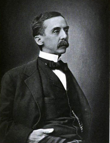 Portrait of Edward Echols, Lt Governor of Virginia